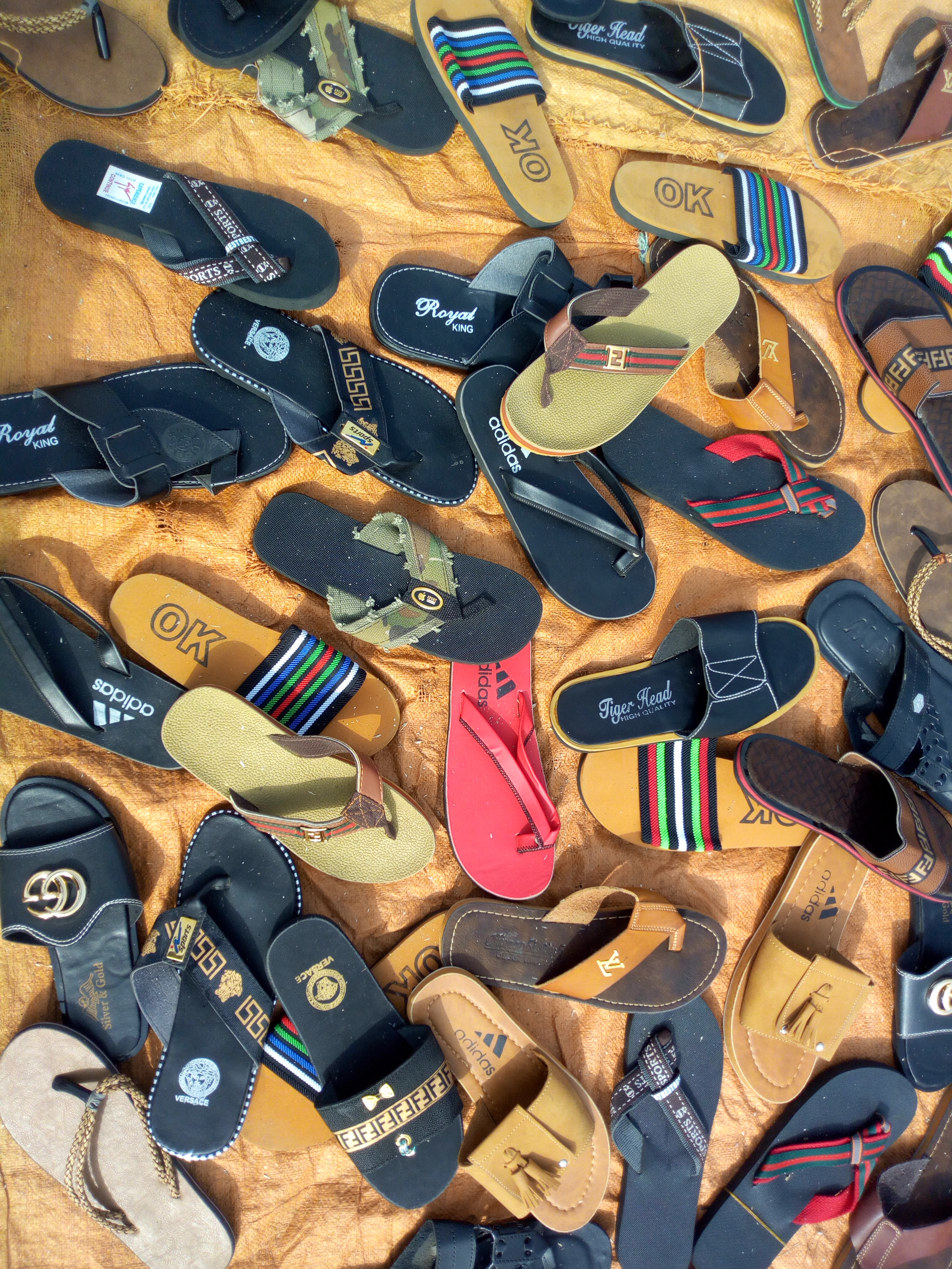 Flip flops